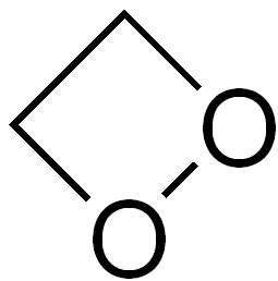 Chemical structure of 1,2-dioxetane